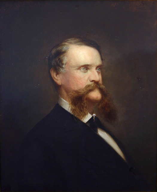 Portrait of U.S. Vice-President John C. Breckinridge